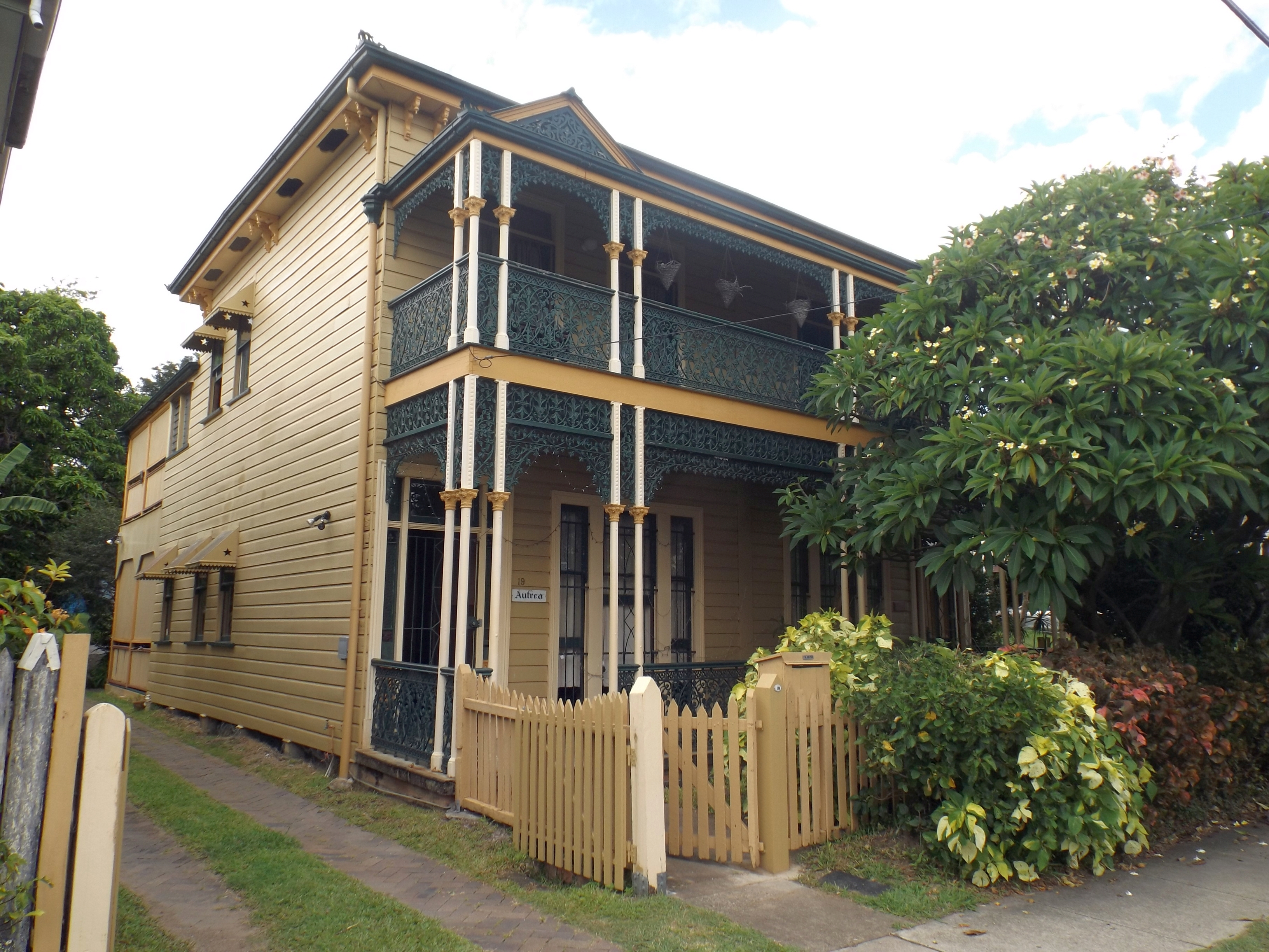 Photo of residence known as Astrea at West End, Brisbane, Queensland, Australia.